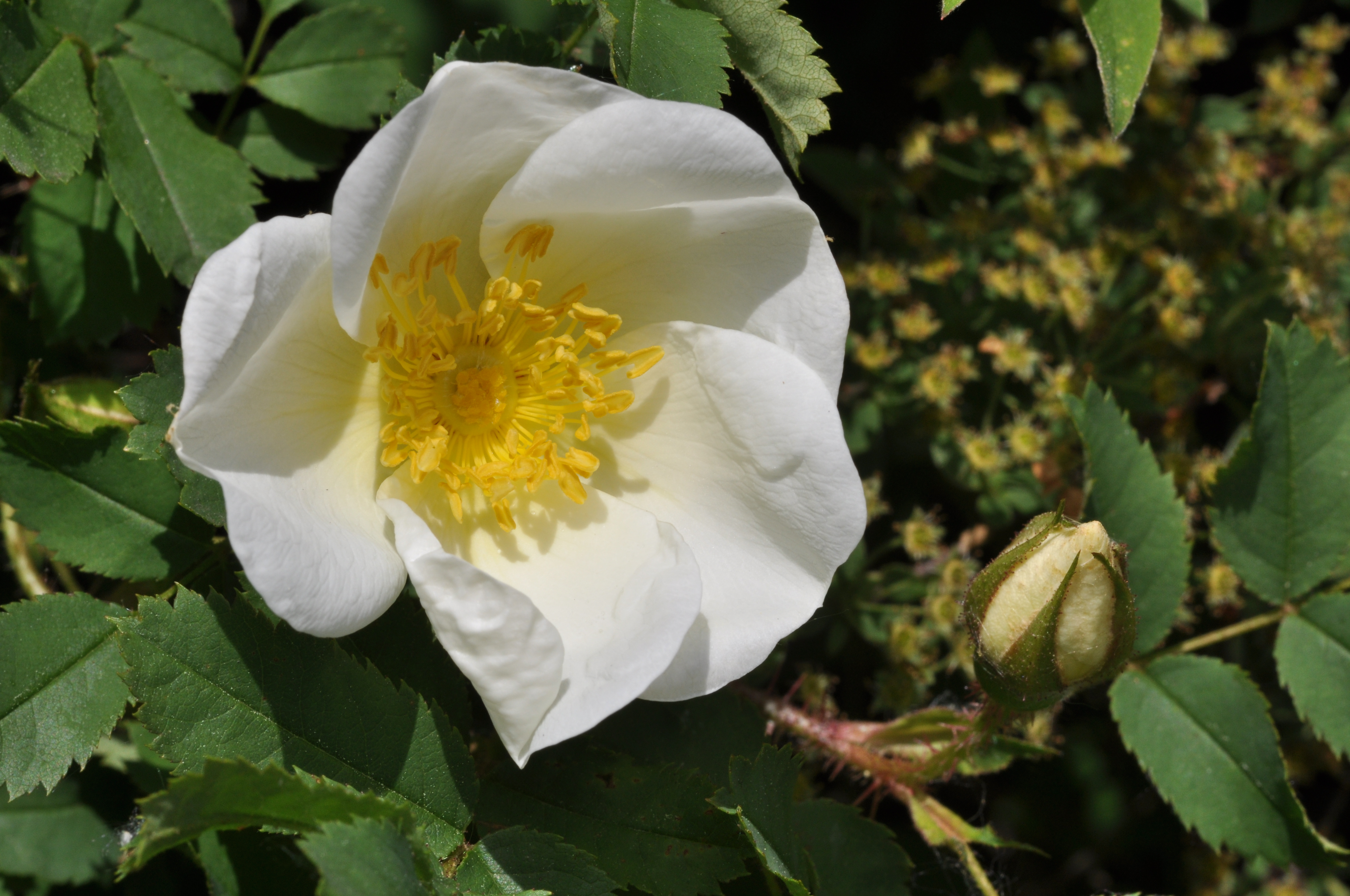 Burnet Rose flower and bud in Bahrenfeld, Hamburg.